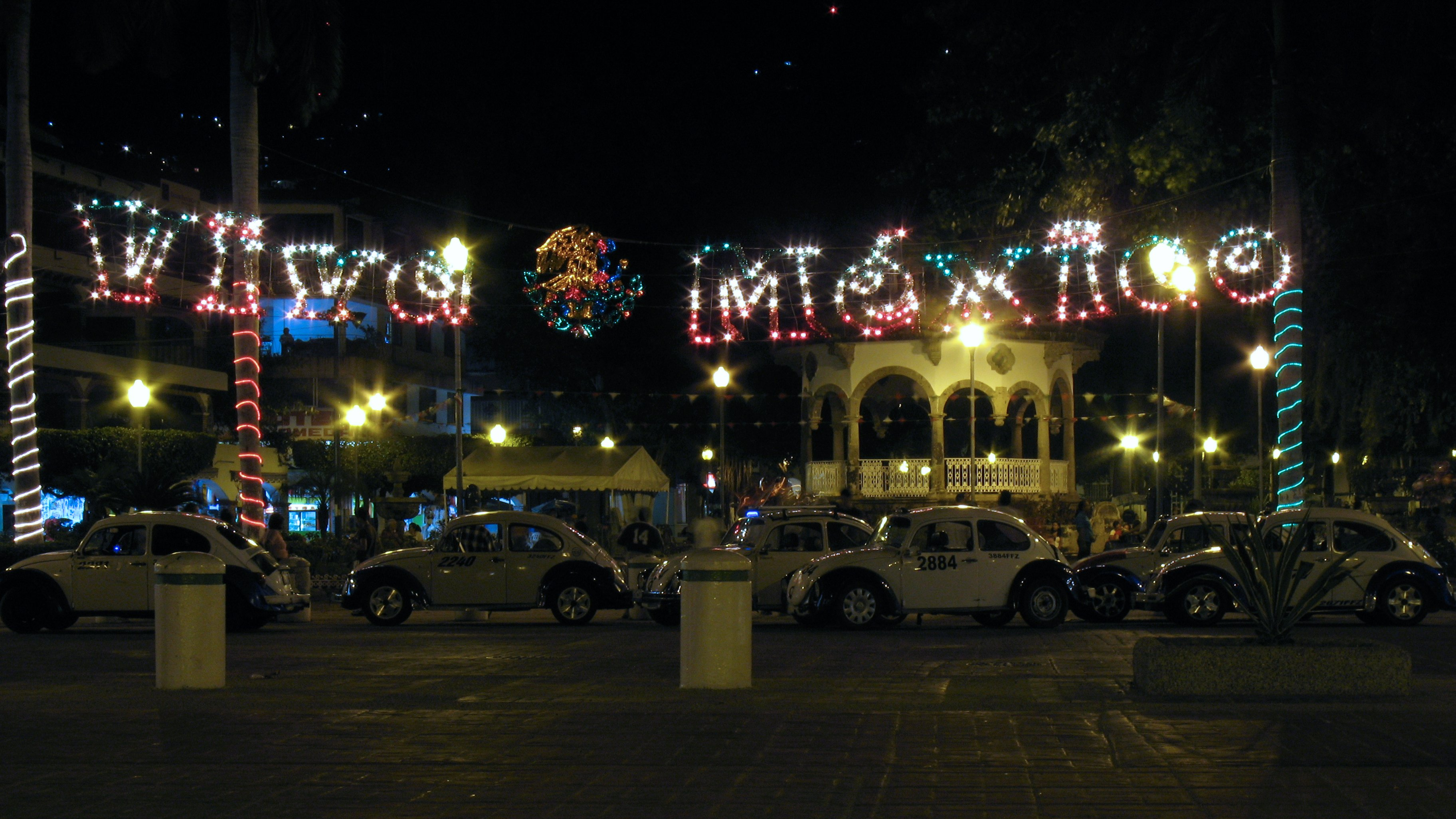 Zócalo (Plaza Álvarez) in Acapulco at night, a few days before the Bicentenario